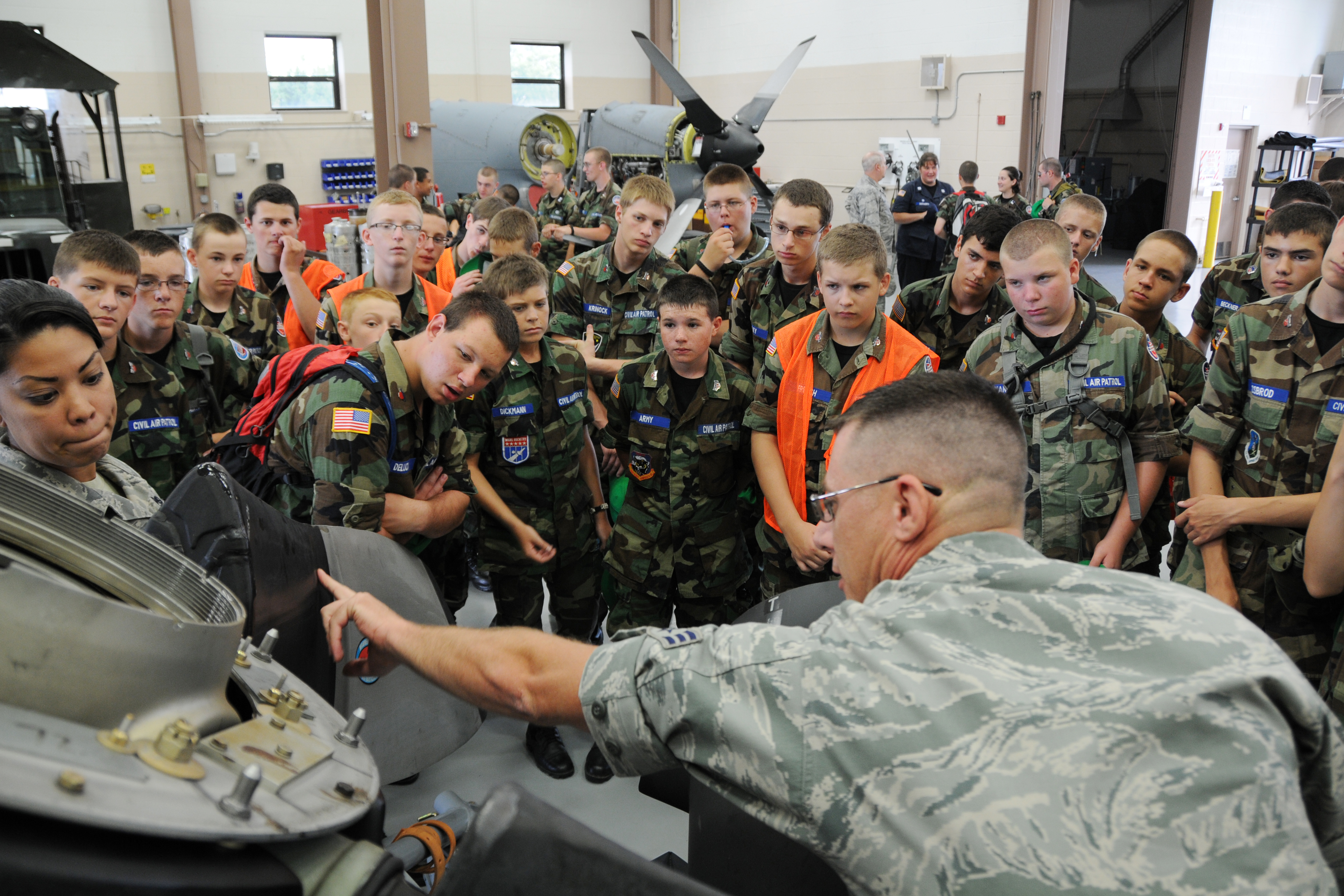 YOUNGSTOWN AIR RESERVE STATION, Ohio—Air Force Reserve SrA Jerry Winkler, an aerospace proplusion helper, and Staff Sgt. Jenelle Rodriguez, an aerospace propulsion journeyman, both with the 910th Maintenance Squadron, explain the functioning of a C-130H Hercules propeller to Civil Air Patrol cadets here, July 31. The Civil Air Patrol toured facilities including the propulsion shop, Navy and Marine Corps Reserve Center and the 910th aerial spray facilities. U.S. Air Force photo by SrA Rachel Kocin.